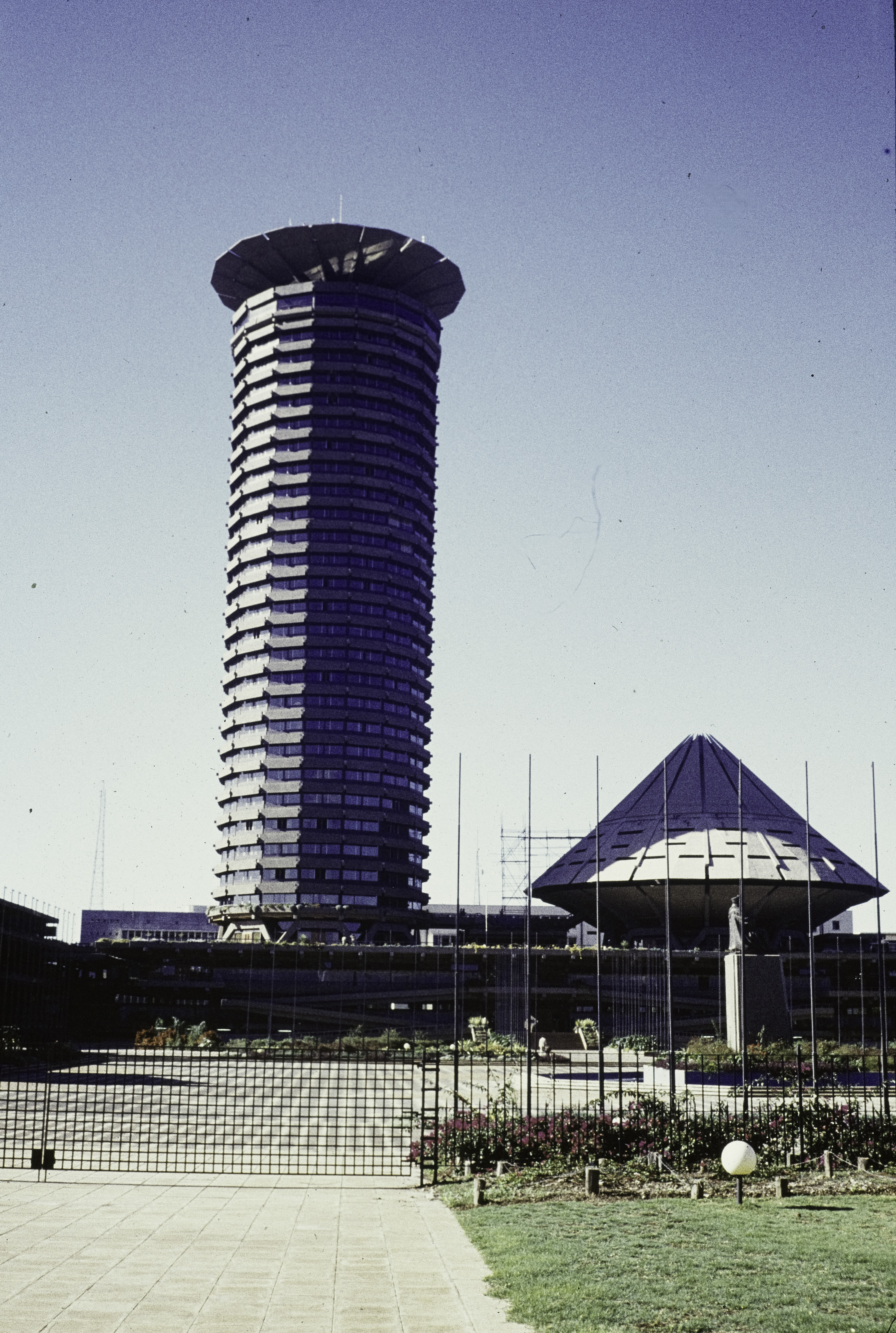 Kenyatta International Convention Centre. Modern round tower apartment and conical building.